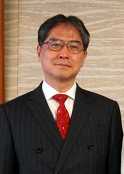 Yūji Iwasawa, Professor of the Graduate Schools for Law and Politics, University of Tokyo, met Yōko Kamikawa, Minister of Justice, at the Central Government Building No.6 in Chiyoda Ward, Tōkyō Metropolis on June 27, 2018.